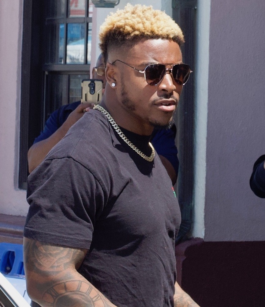 Corey Clement in Ocean City, NJ